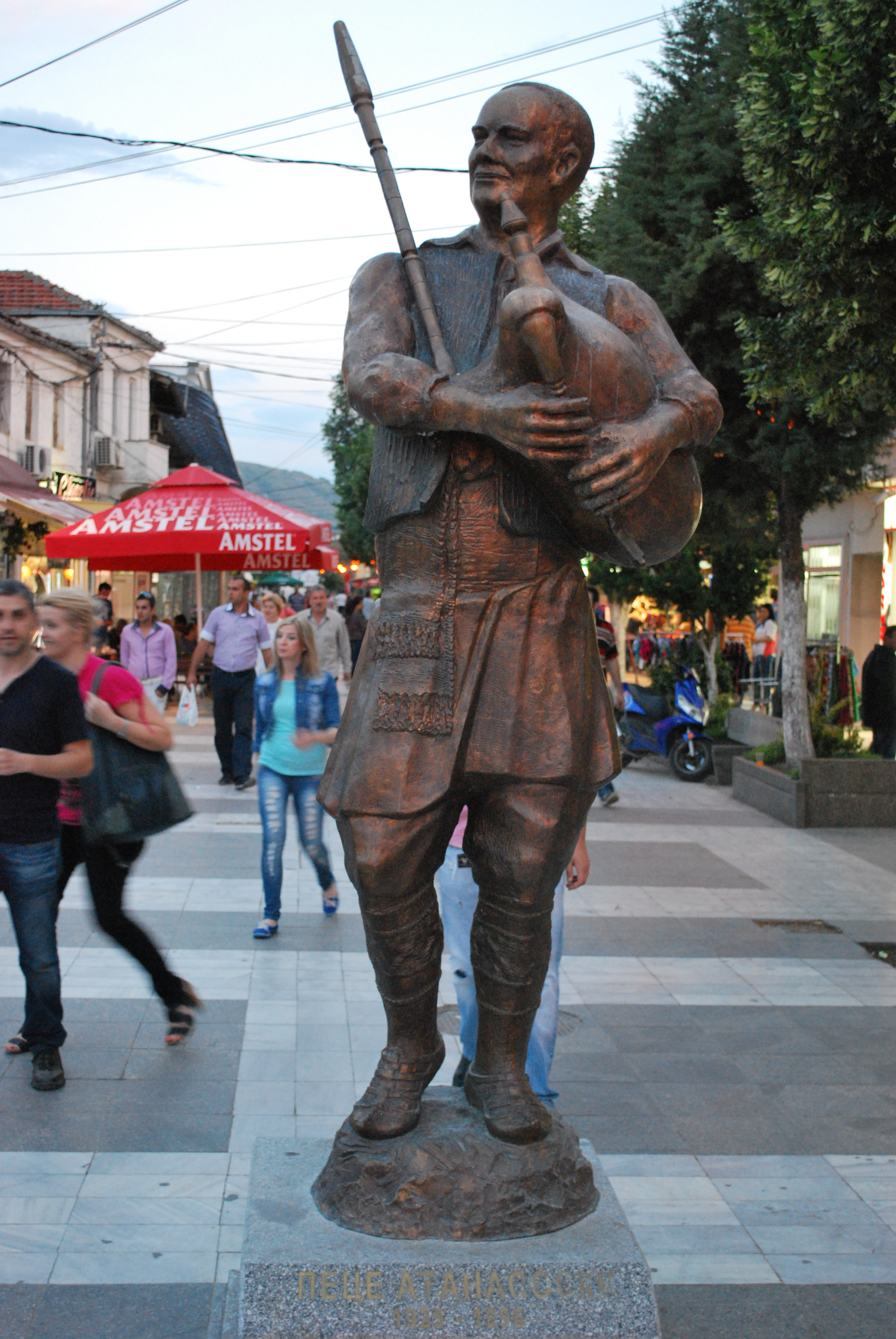 Monument of Pece Atanasoski in Prilep, Macedonia